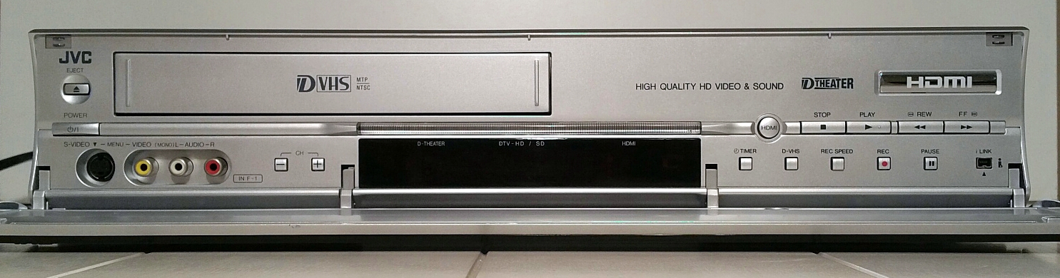 digital video recorder JVC model HM-DT100U